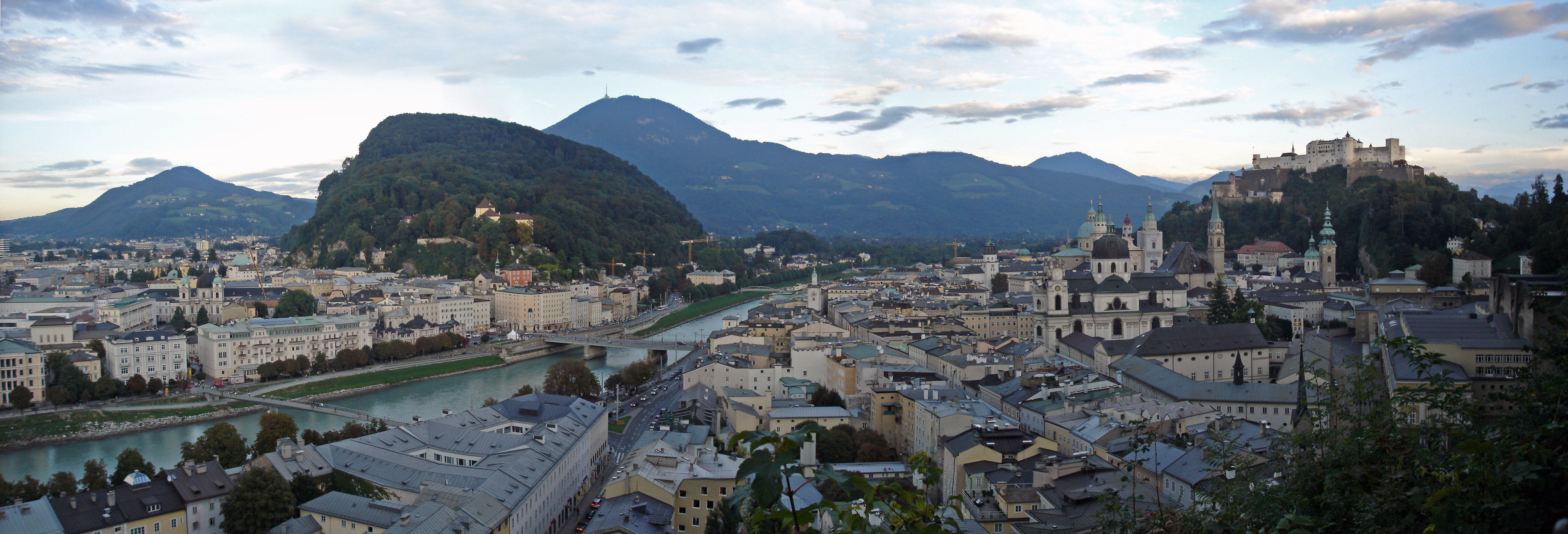 Salzburg's old town from Mönchsberg.